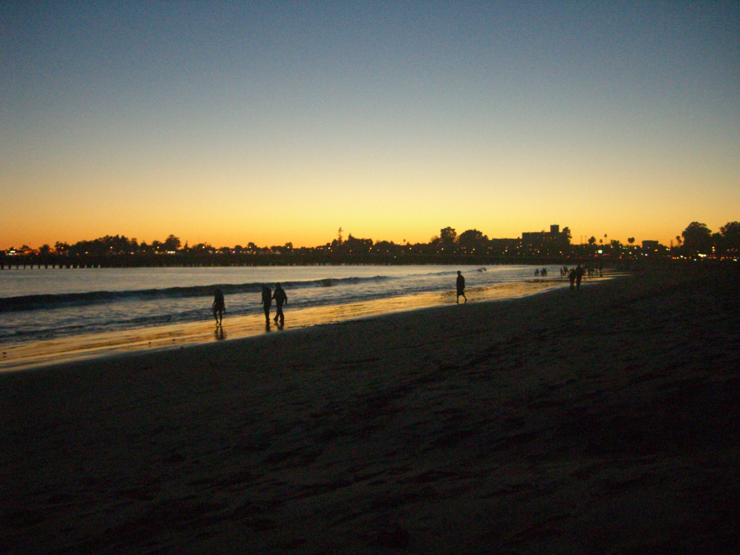 Photographed by Reenie56